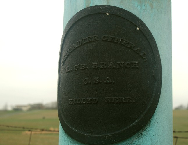 Memorial cannon placed at site of Branch's death